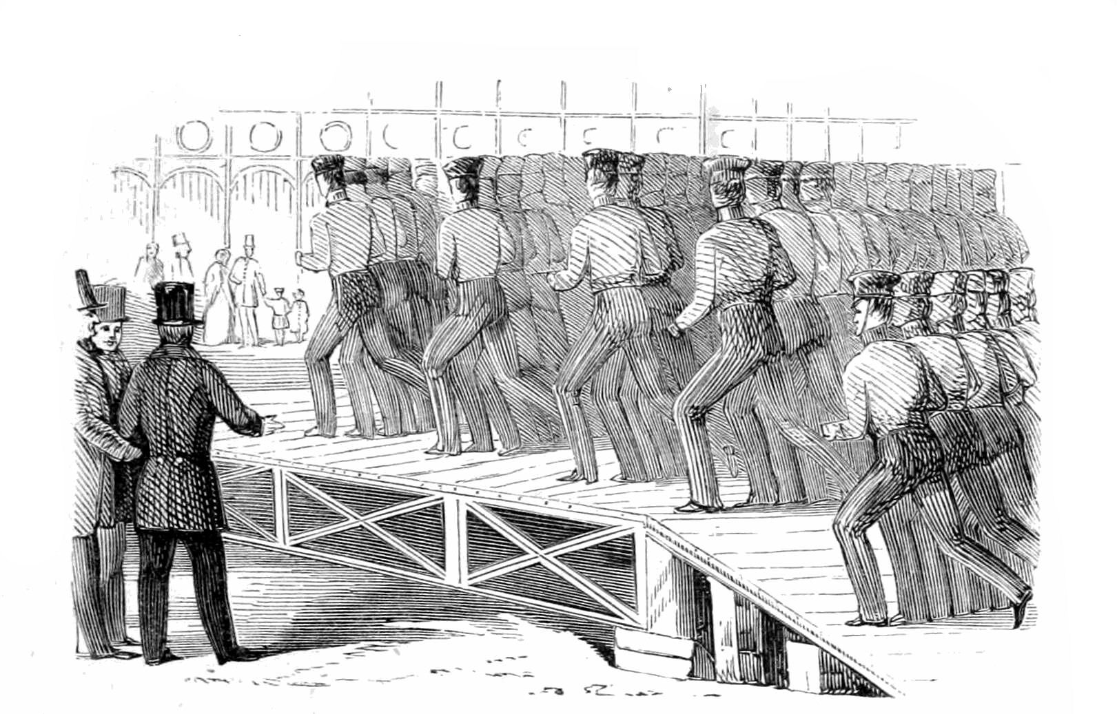 Testing the Gallery Floor for the Crystal Palace.